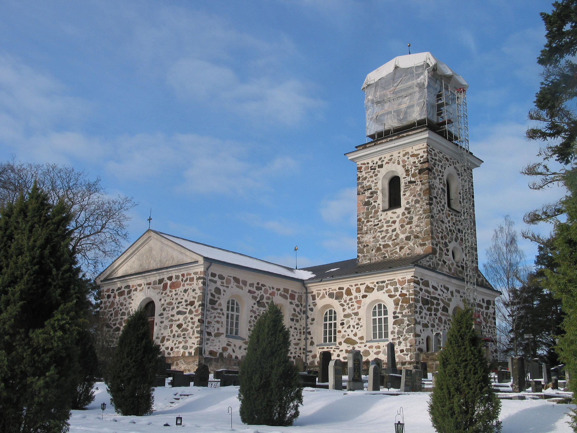 Nummi Church, Nummi-Pusula, Uusimaa, Finland – The bell tower under repair. The church was completed in 1822 and designed by A. N. Edelcranz.